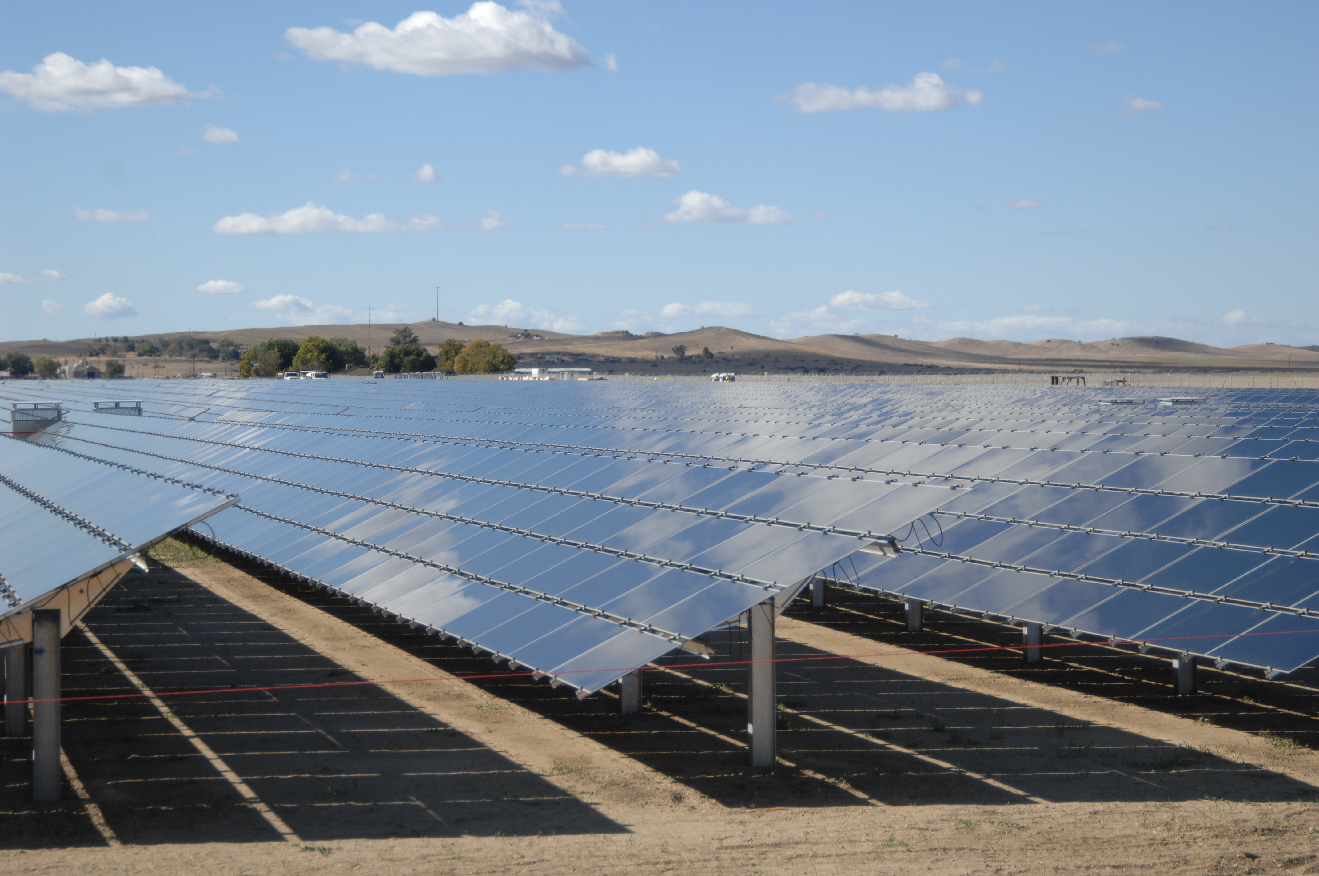 Photo Credit: Sarah Swenty/USFWS